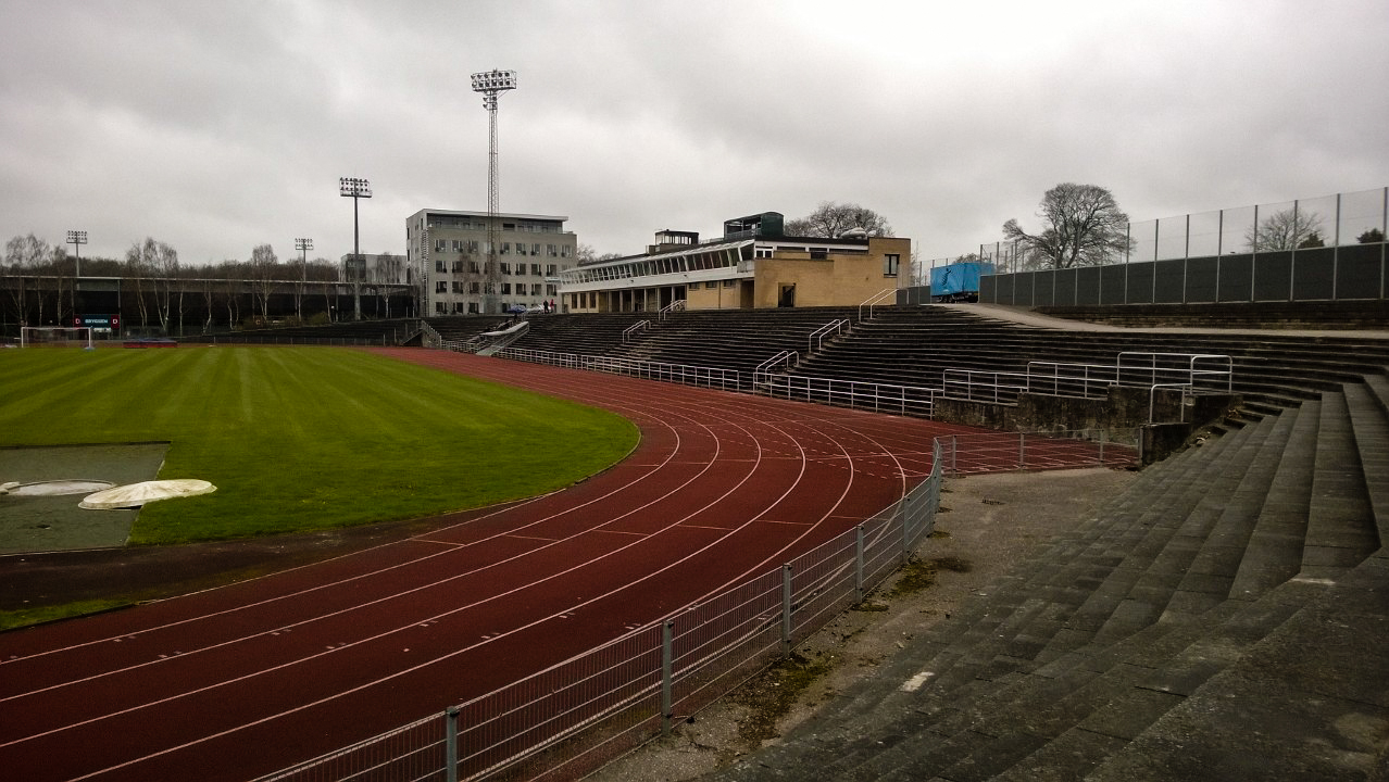 Vejle Atletikstadion with the new Vejle Stadion in the background